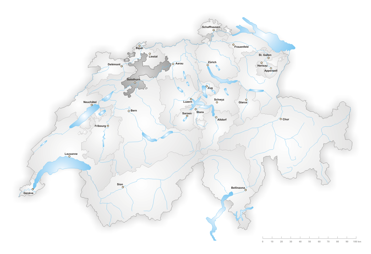 Summary